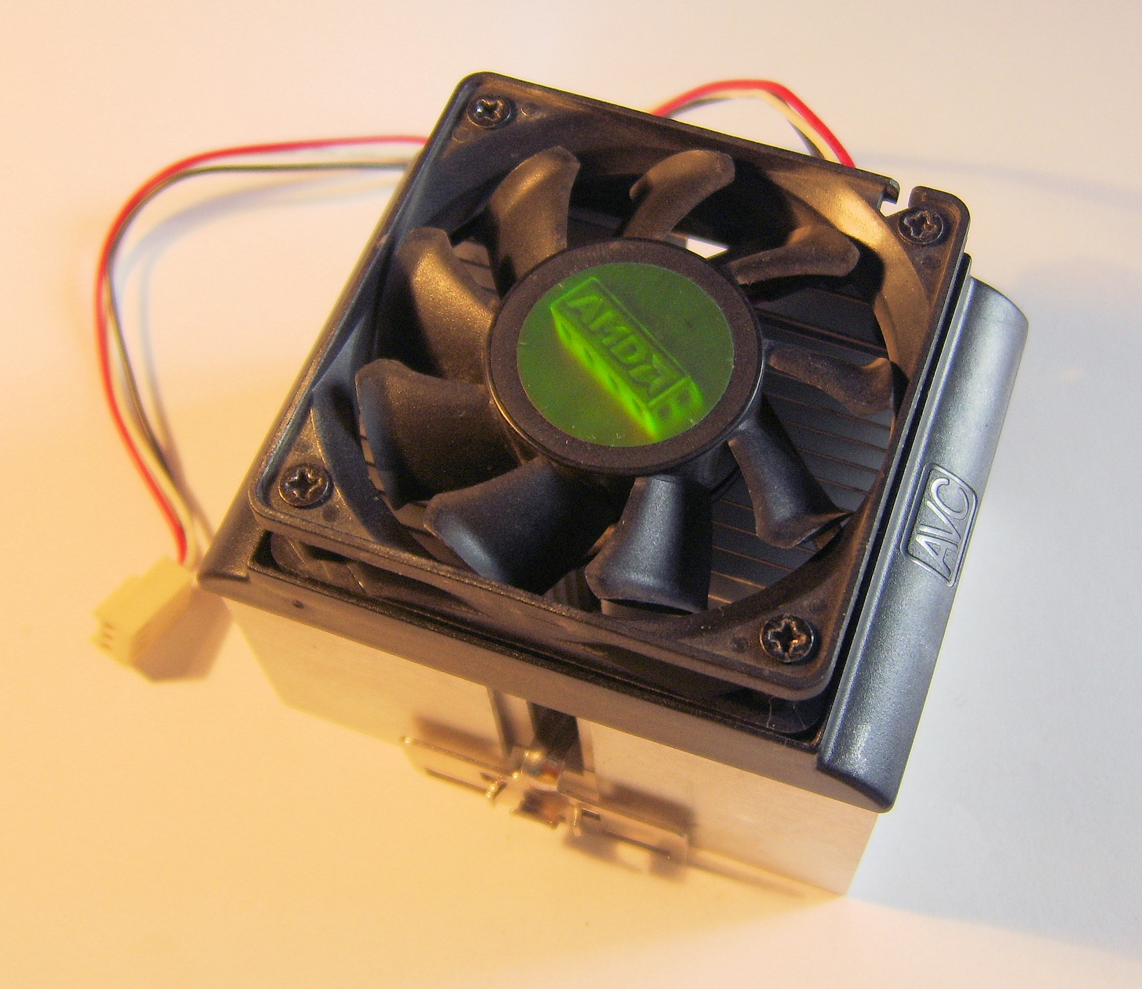 Cooler on socket A, with hologram logo of AMD